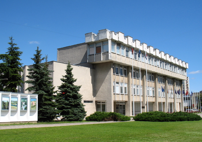 Kaunas district municipality building.